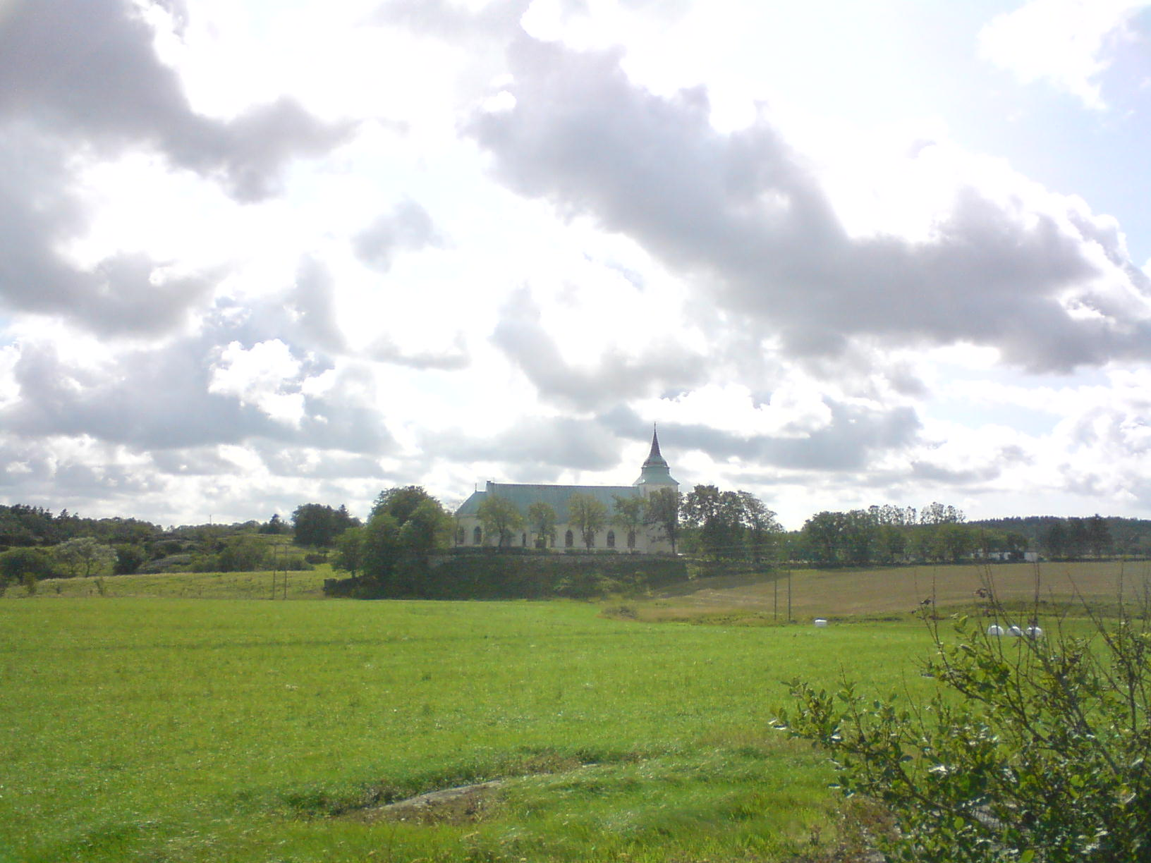 Tegneby kyrka from the north. Tegneby kyrka "Tegneby church" is the parish church of Tegneby parish (Swe: Tegneby församling or elderly: Tegneby socken).